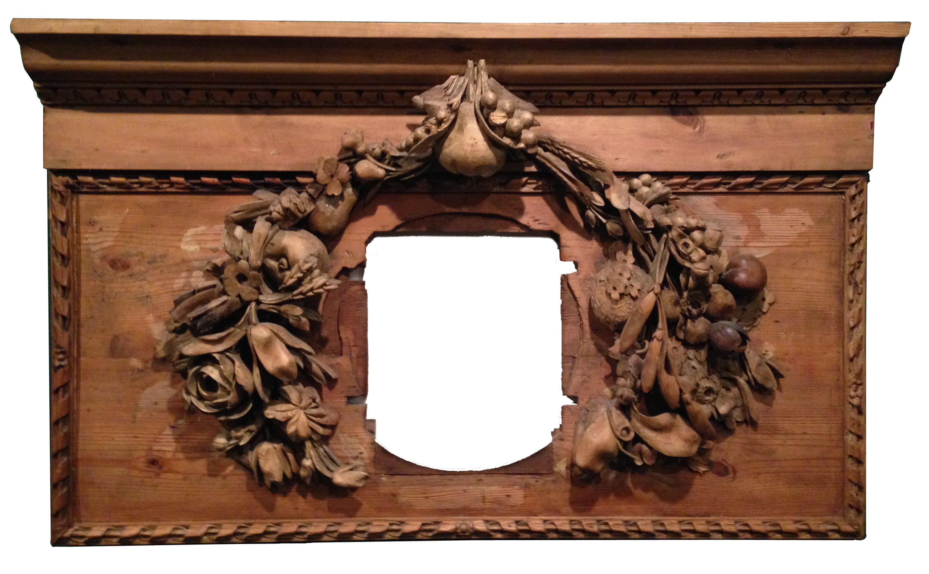 Carved wooden surround by Grinling Gibbons 1676-1680 for Cassiobury House, Watford, England. It is thought that the hole in the centre is not as originally carved by Gibbons, who probably designed it to house a small painting. The shape suggests that it was enlarged, probably c.1805 during refurbishment work by James Wyatt, to accommodate a larger timepiece.